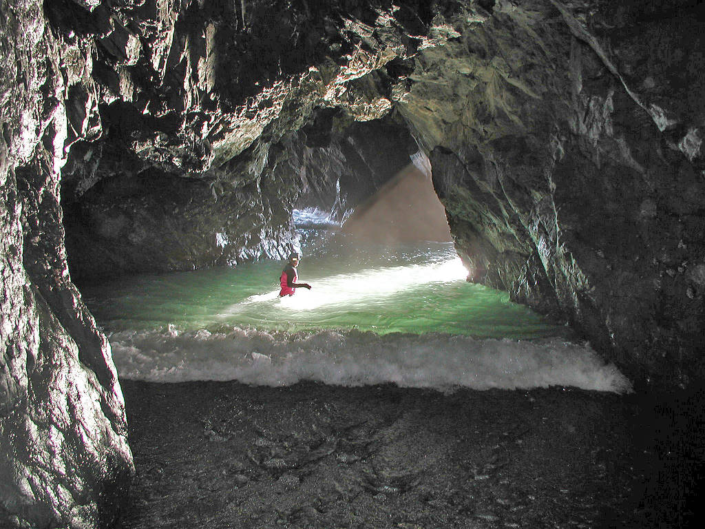 Exploring a sea cave in Mendocino County, California